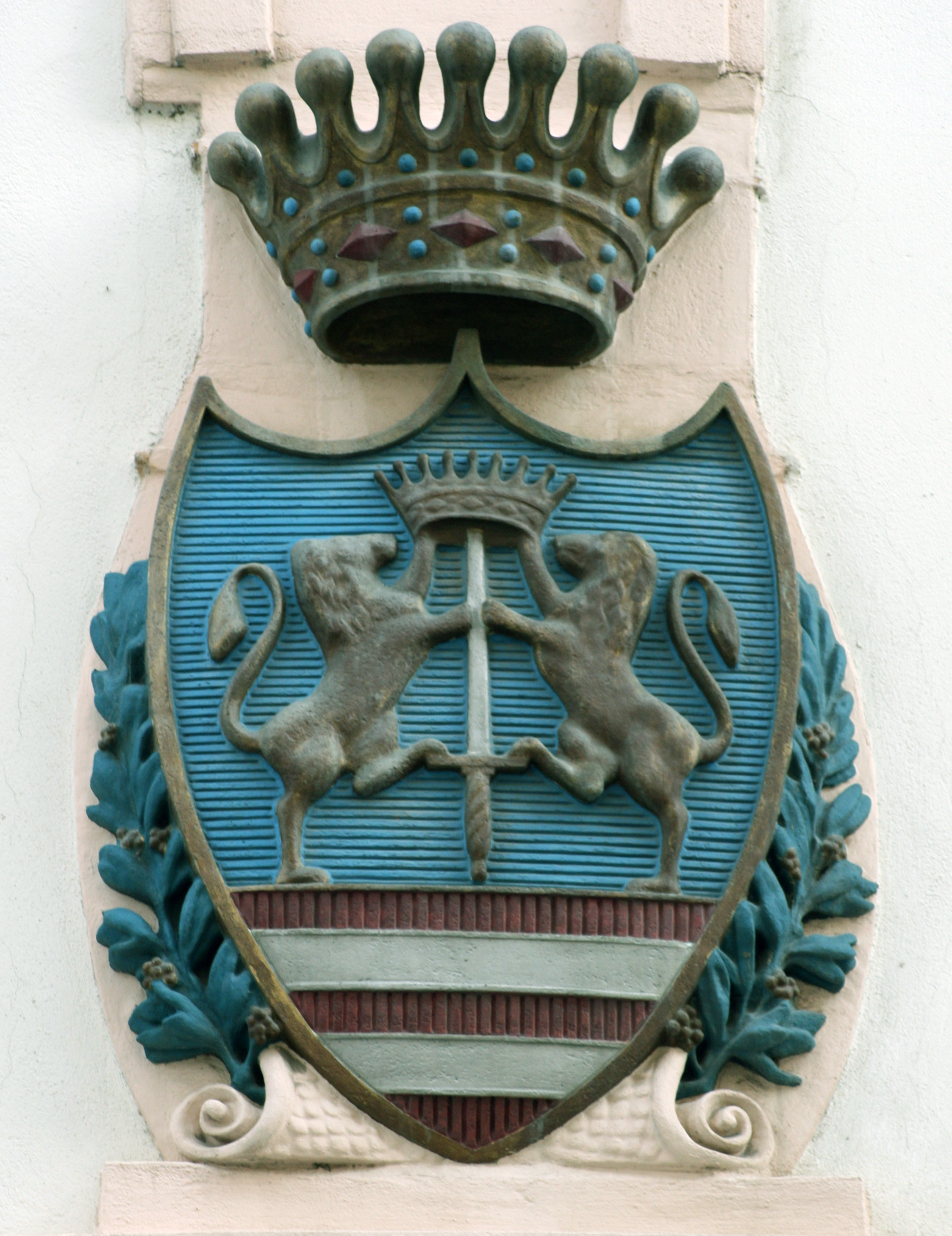 Keglevich family coat of arms in Bratislava